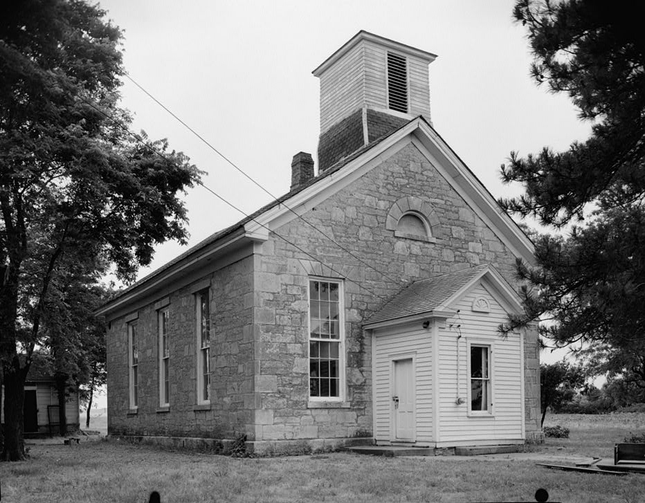 Entrance of the Beecher Bible and Rifle Church, located at the southeastern corner of the intersection of Chapel and Elm Sts. in Wabaunsee, Wabaunsee County, Kansas, United States. Built in 1862, the church was added to the National Register of Historic Places on 24 February 1971. Its name is derived from the congregation itself: supported in its founding by Henry Ward Beecher, it was active in abolitionism during the Bleeding Kansas and Civil War eras.